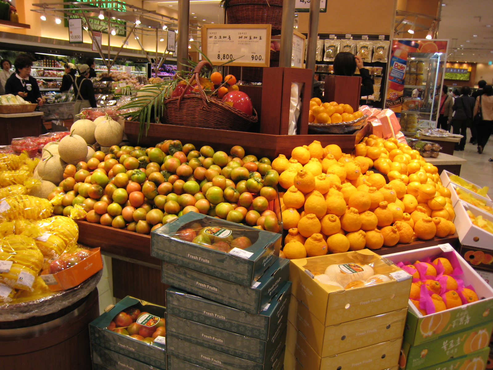 Hanllabong / hallabong (citrus) and other fruits.